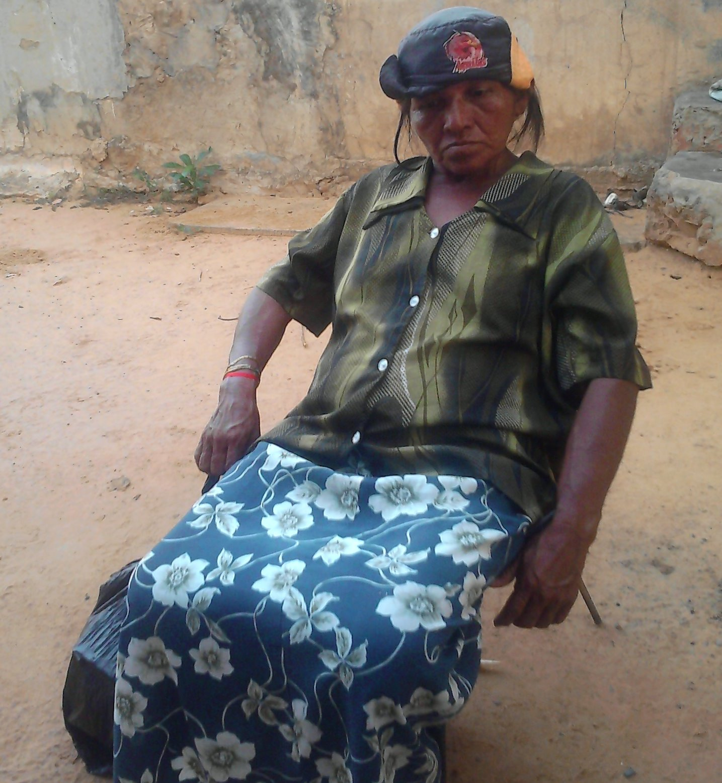 Yukpa woman